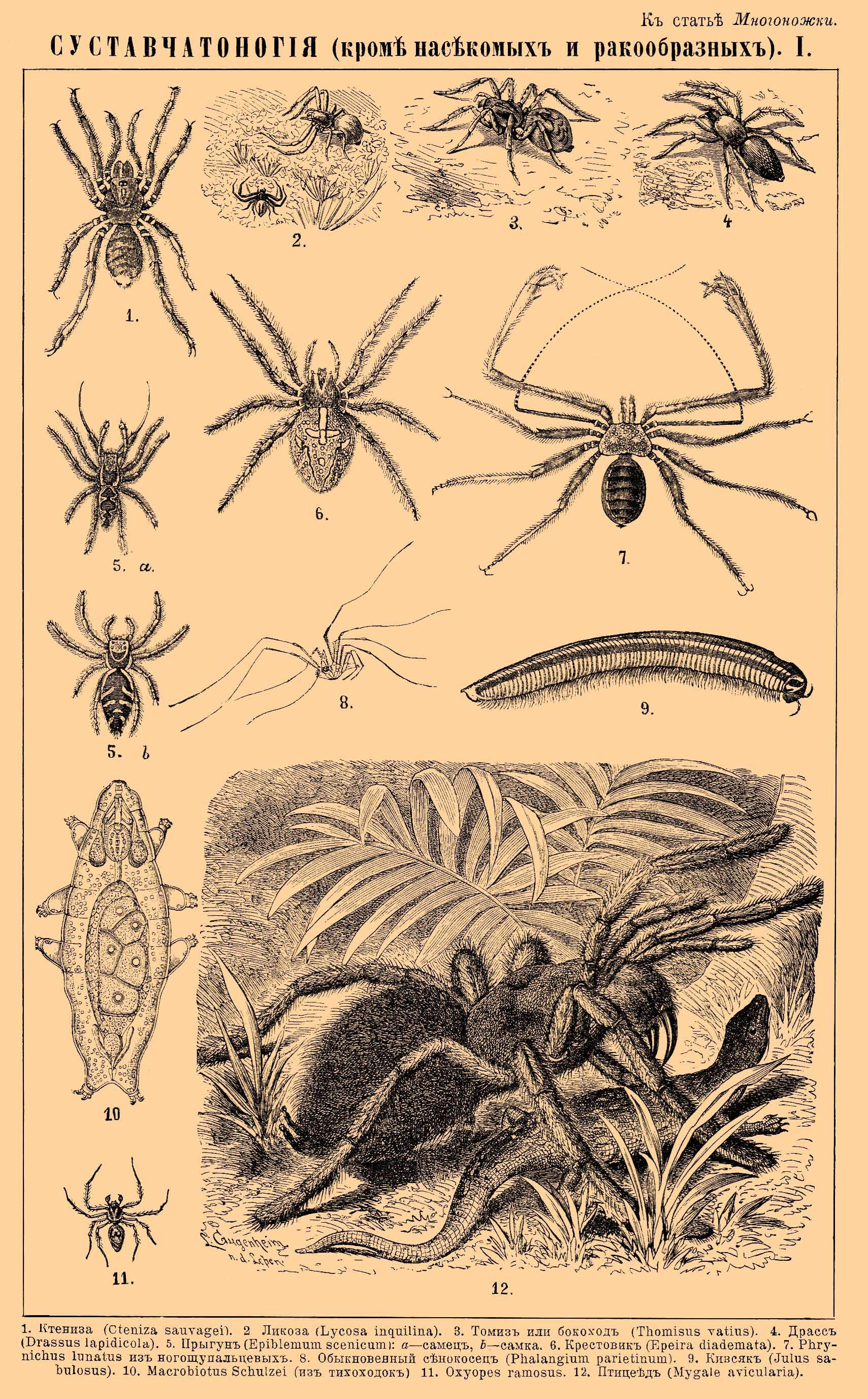 Illustration from Brockhaus and Efron Encyclopedic Dictionary (1890—1907)